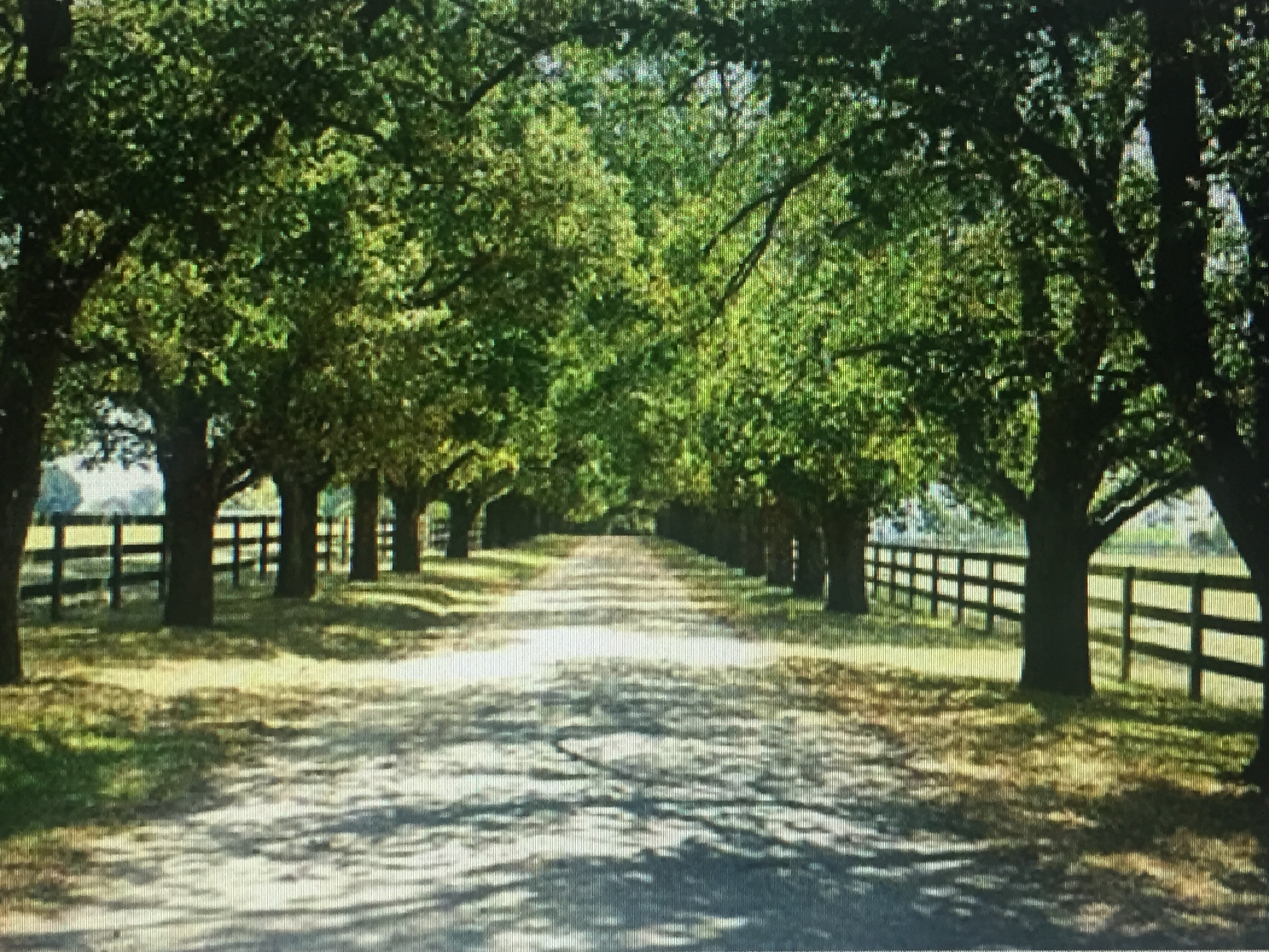 Tulliallan Elm Trees Front View